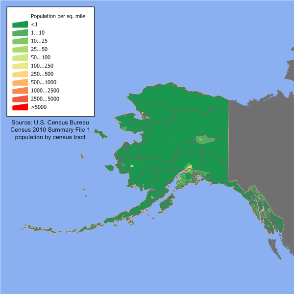 Alaska state population density map based on Census 2010 data. See the data lineage for a process description.